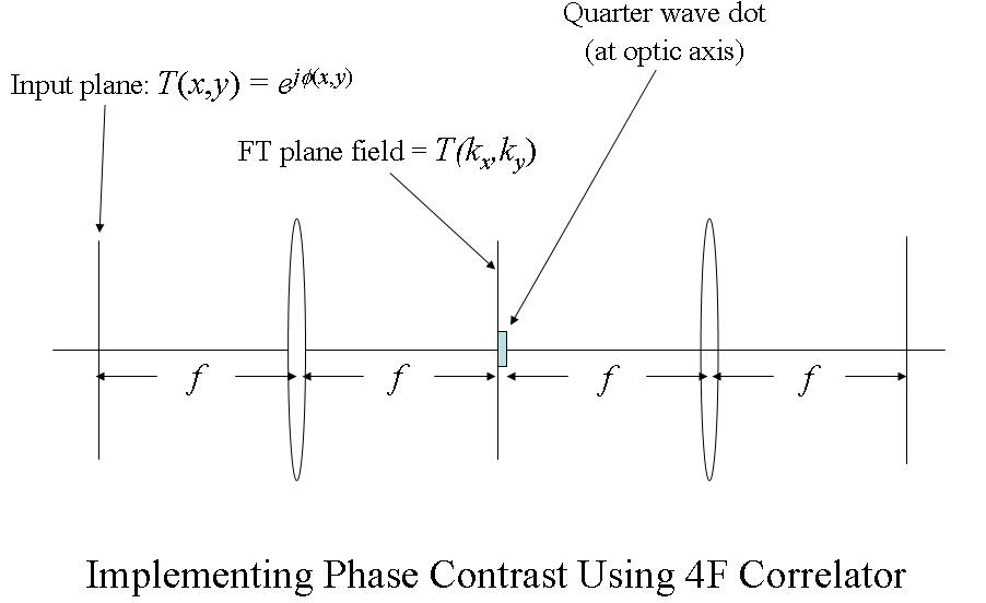 Implementing phase contrast using 4F correlator.